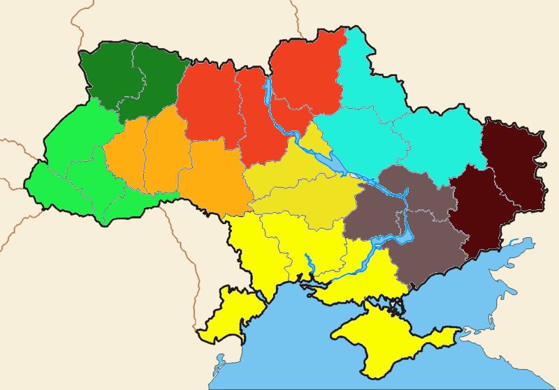 Economic regions of Ukraine Причорноморський економічний район (Black Sea economic region) Північно-східний економічний район (Northeastern economic region Карпатський економічний район (Carpathian economic zone) Центральний економічний район (Central economic region) Придніпровський економічний район (Dnepr economic region) Столичний економічний район (capital economic region) Подільський економічний район (Podolian economic region) Північно-західний економічний район (Northwestern economic region) Донецький економічний район (Donetsk economic region)